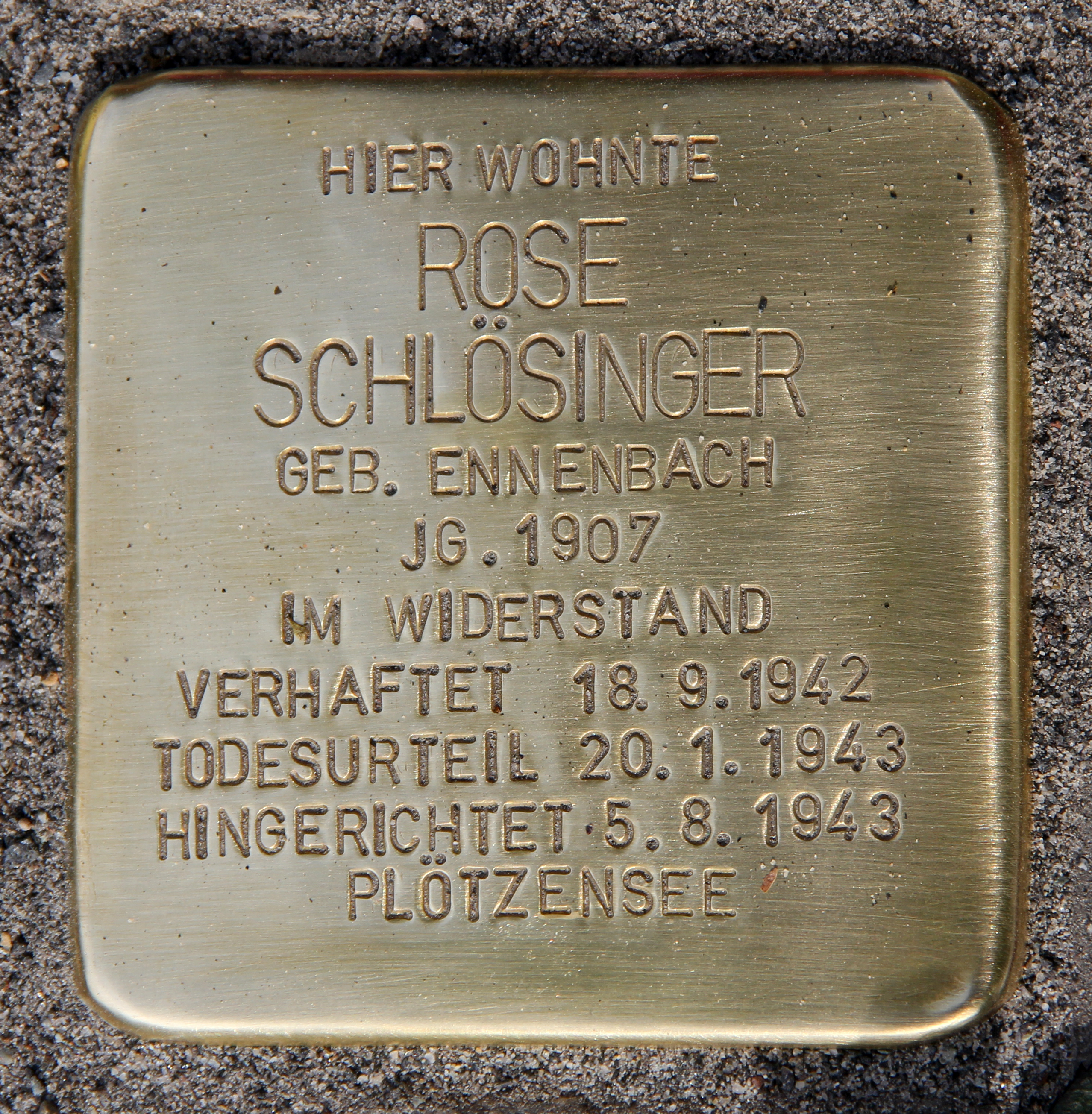 "Stolperstein" (stumbling block), Rose Schlösinger, Sebastianstraße 42, Berlin-Mitte, Germany